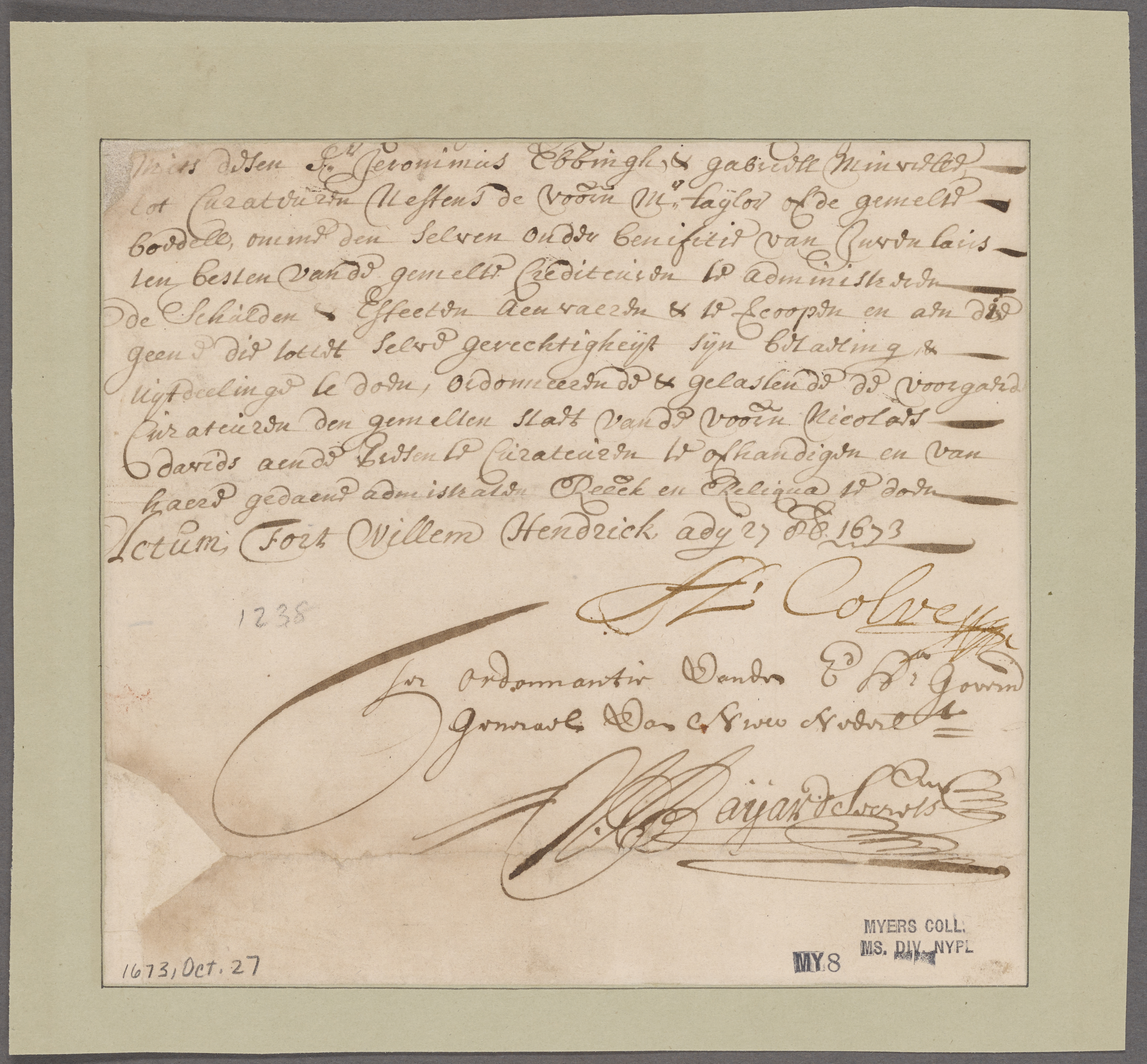 Digitization was made possible by a lead gift from The Polonsky Foundation.